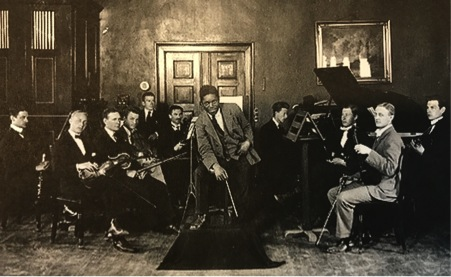 A young Victor Cornelins at the centre during music practice with colleagues